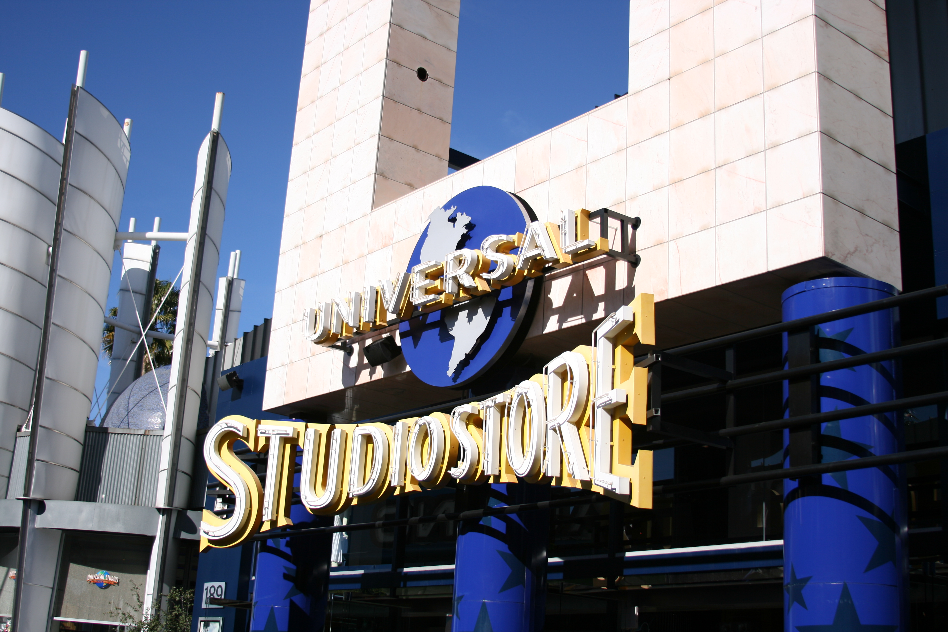 Photo of the Universal Studios Store